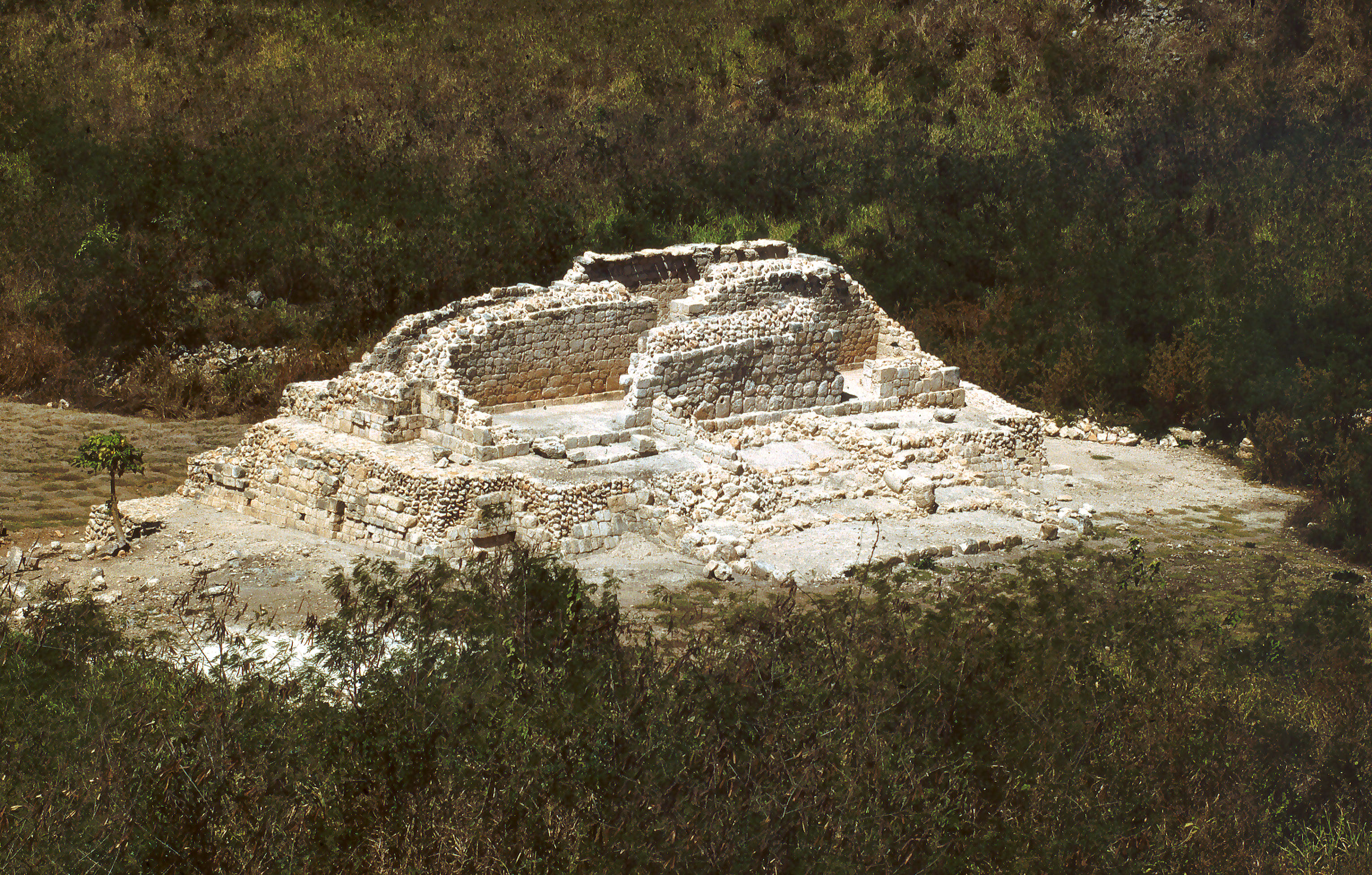 Oxkintoc, Yucatan, Mexico: Satunsat